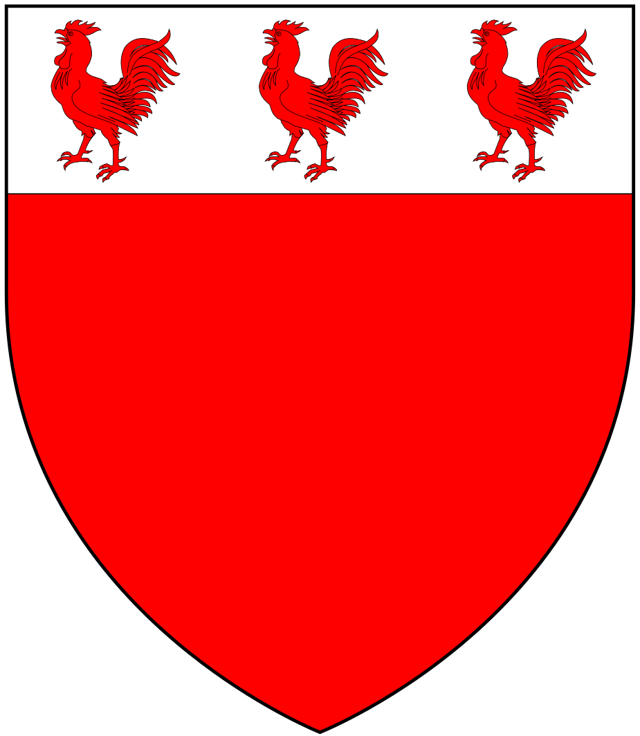 Arms of Hancock of Combe Martin, Devon (17th.c.): Gules, on a chief argent three cocks of the field. (Source: Heralds' Visitations of Devon, ed. Vivian, 1895, p.441). These arms are visible on the monument to Judith Hancock (d.1676), wife of Henry Stevens of Vielstone, on her mural monument in Great Torrington Church. Monuments to the Hancock family also exist in Combe Martin parish church.